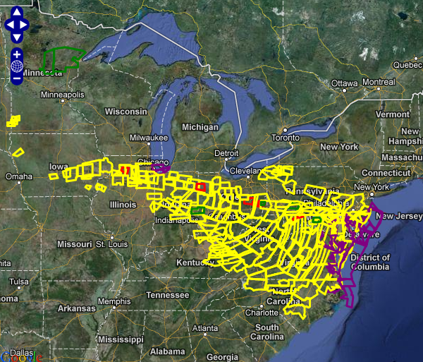 NWS severe local storm warnings across the derecho's path. Other information Red = TOR Yellow = SVR Green = FFW Blue = SMW